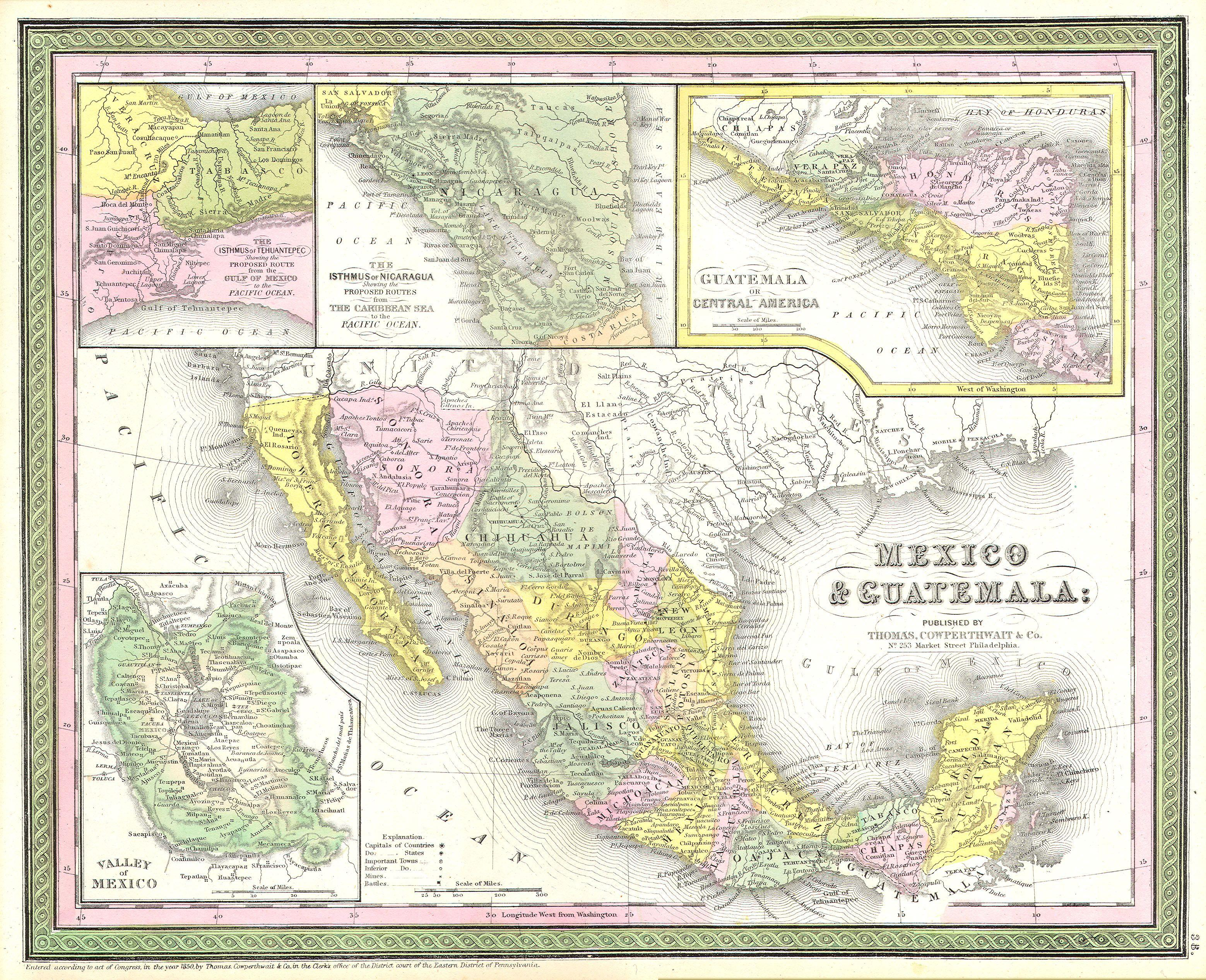 This scarce hand colored map is a lithographic engraving of Mexico. Roughly covers the territory of modern day Mexico and Texas. Inset maps depict the Valley of Mexico, today’s Mexico City and Estado de Mexico (Mexico State). Inset maps along the upper border depict the Isthmus of Tehuantepec, the Isthmus of Nicaragua, and Guatemala. The whole is shows both political and geological features and is rendered in the lovely pastels typical of 1850s Mitchell / Cowperthwait maps. Dated and copyrighted 1850.